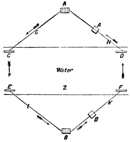 An early diagram for telegraphy across bodies of water, as published by James Bowman Lindsay (1799-1862)